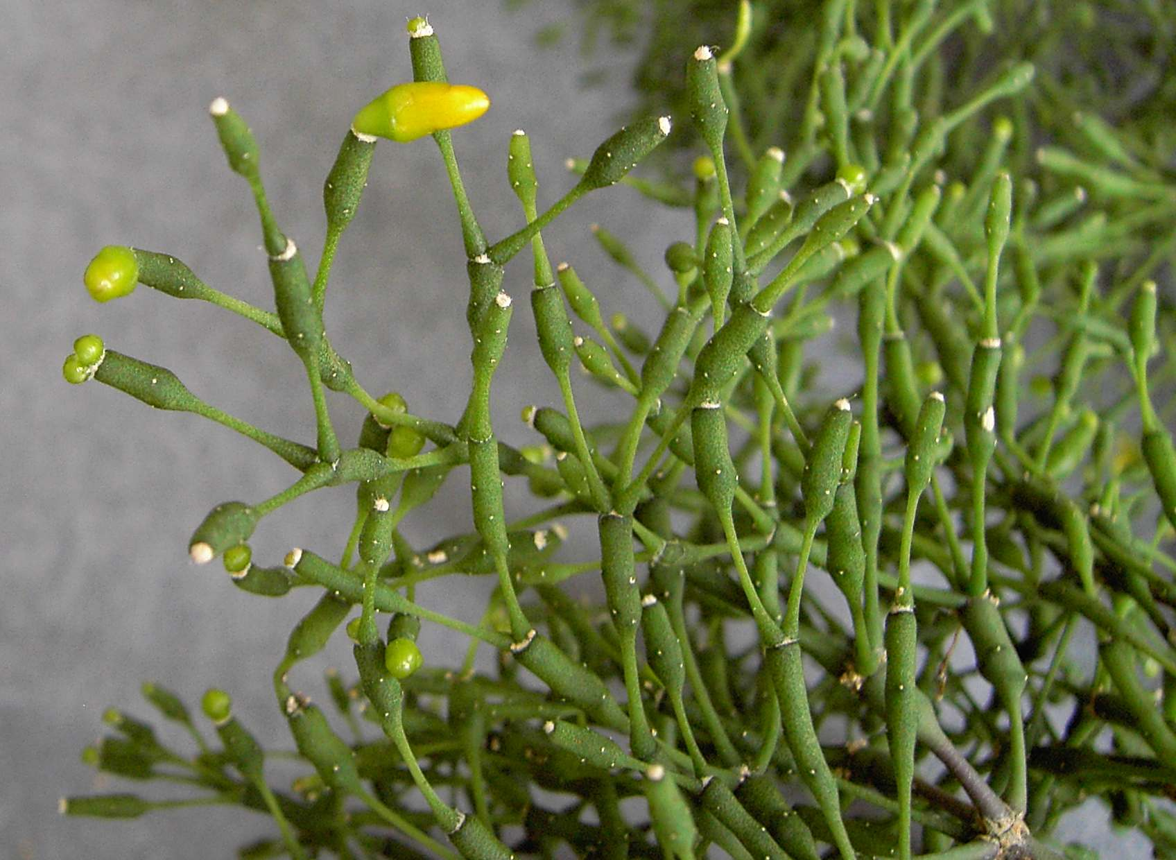 Hatiora salicornioides with some buds in january 2006 northern hemisphere. The buds and flowers are only found on the plants window side, where it is colder.